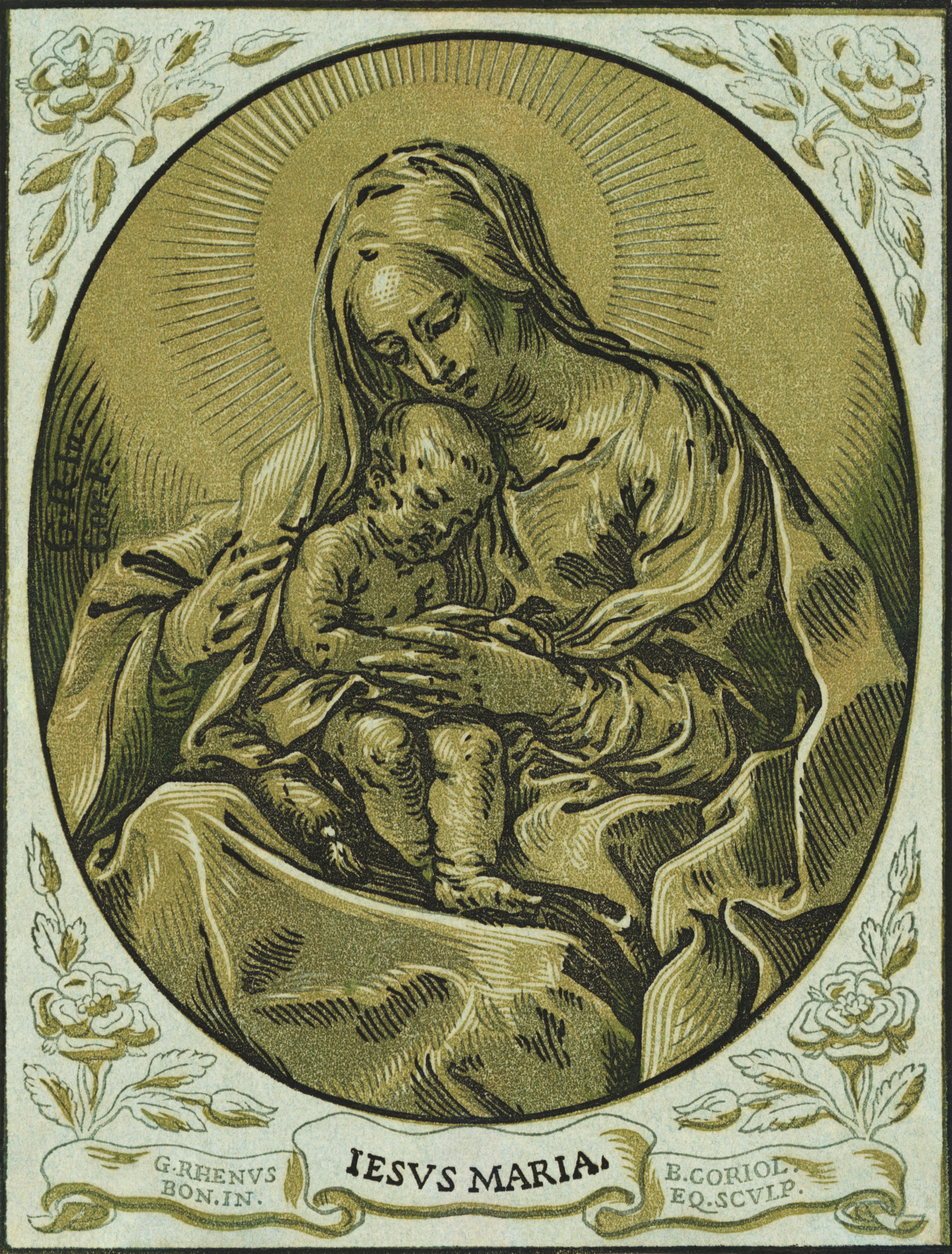 Madonna and child, chiaroscuro woodcut, by Bartolommeo Coriolano